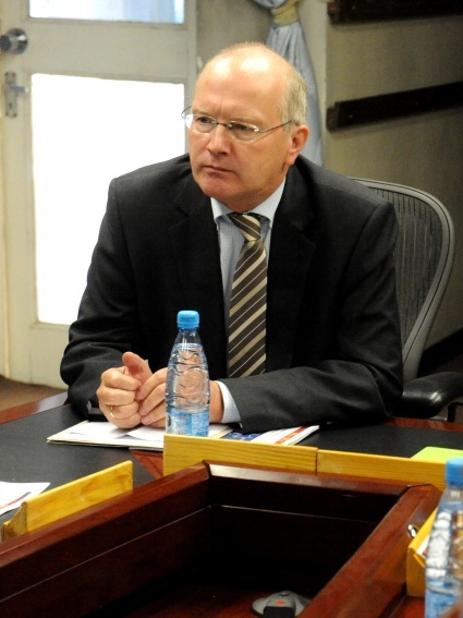 Kabul - Canadian Maj.Gen. Stuart Beare, Deputy Commanding General - Police, meets with Klaus-Dieter Fritsche, German State Secretary to the Ministry of Interior on Sep. 2, 2010. Mr. Fritsche attended a situation brief while visiting Camp Eggers. (U.S. Air Force photo/Staff Sergeant Matt Davis)